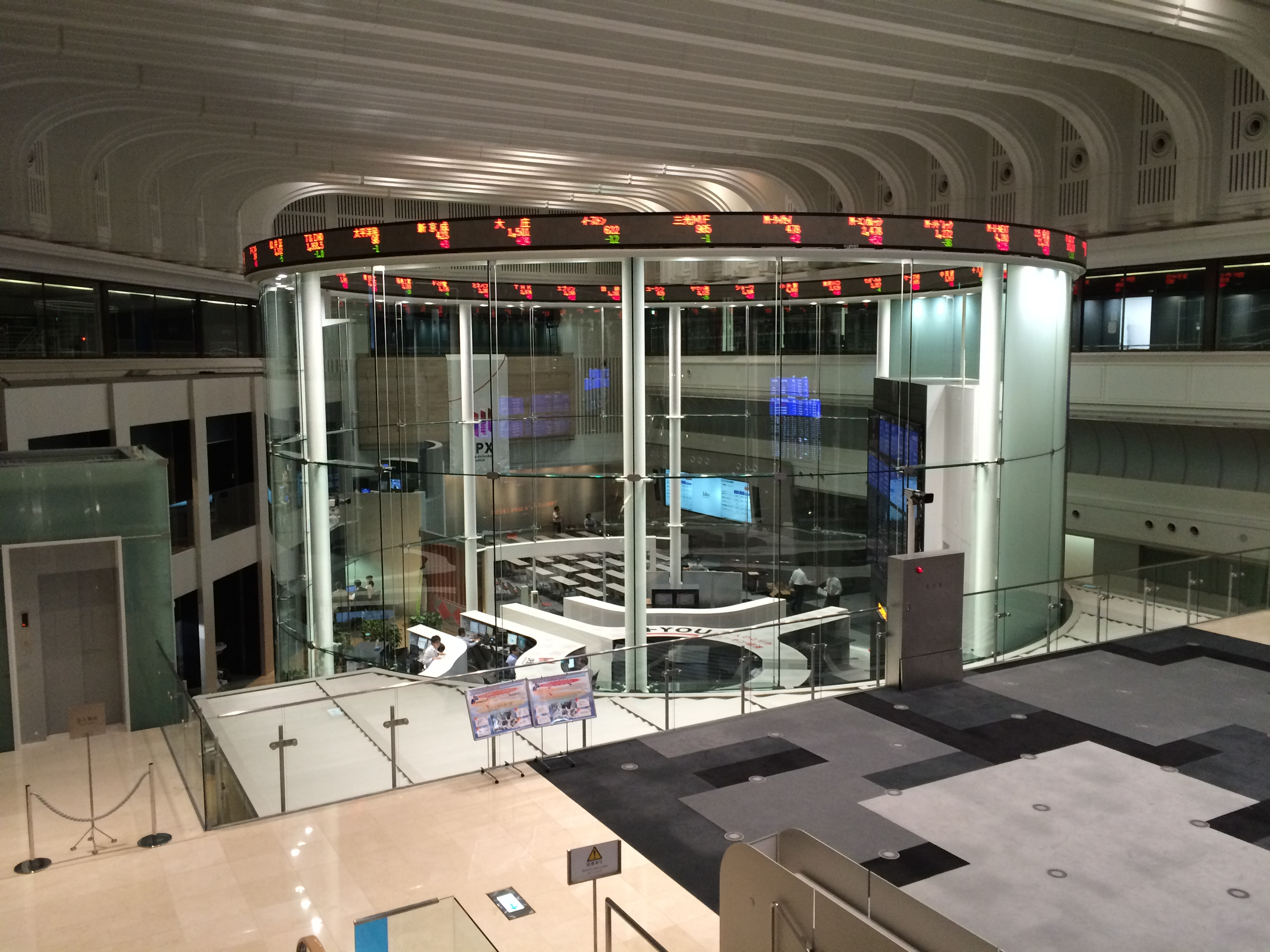 Tokyo Stock Exchange Interior